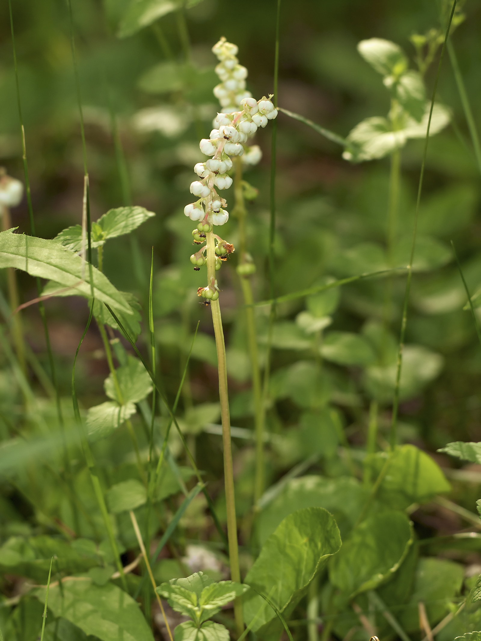 Lesser Wintergreen (Pyrola minor), Chemnitz, Germany